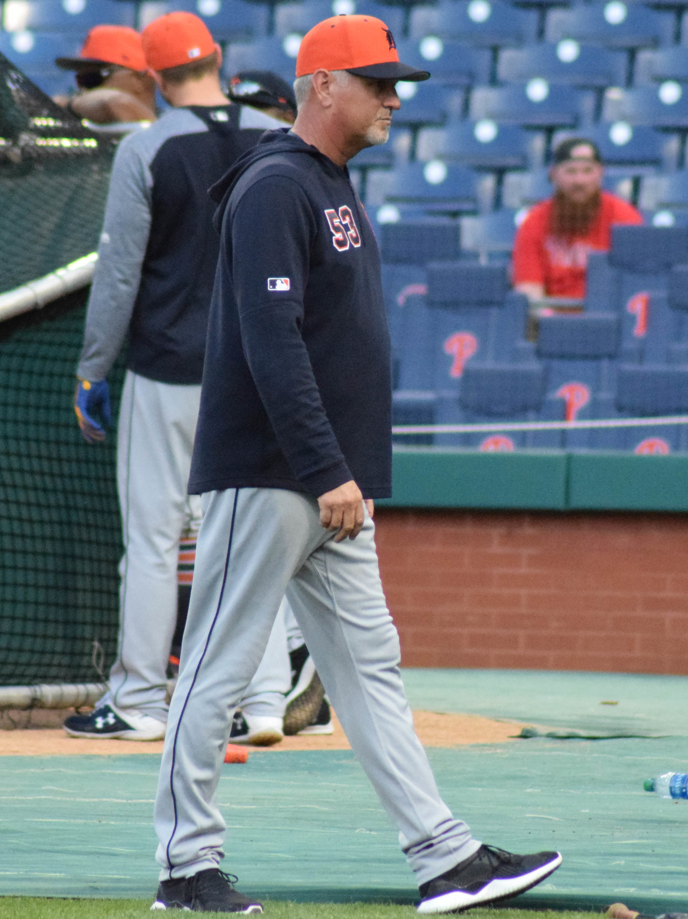 Jeff Pico of the Detroit Tigers at Citizens Bank Park in Philadelphia in April 2019.